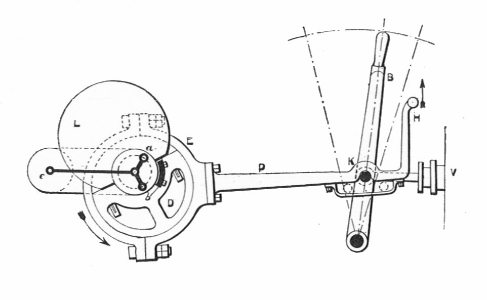 Fig. 35 Loose Eccentric Reversing Gear ICounterweightHGabKValve rod pinVValveBControl leverbKey, fixed on shaft